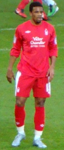 20/11/10 Cardiff V Nottingham Forest, Championship, Cardiff City Stadium, Cardiff, Wales